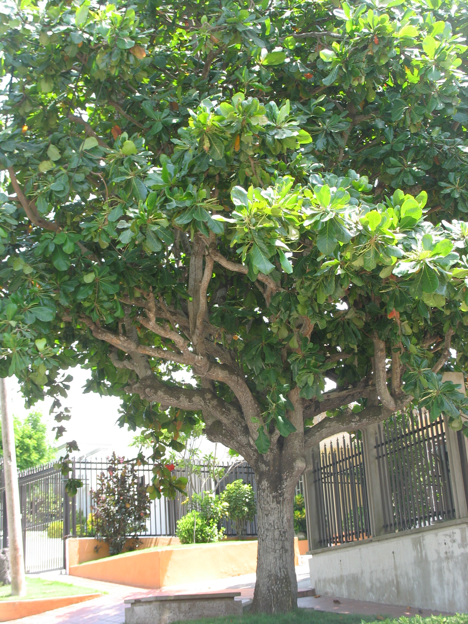 Barranquilla Almond tree